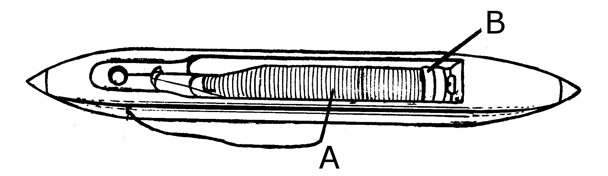 Line art diagram of a shuttle as used in weaving